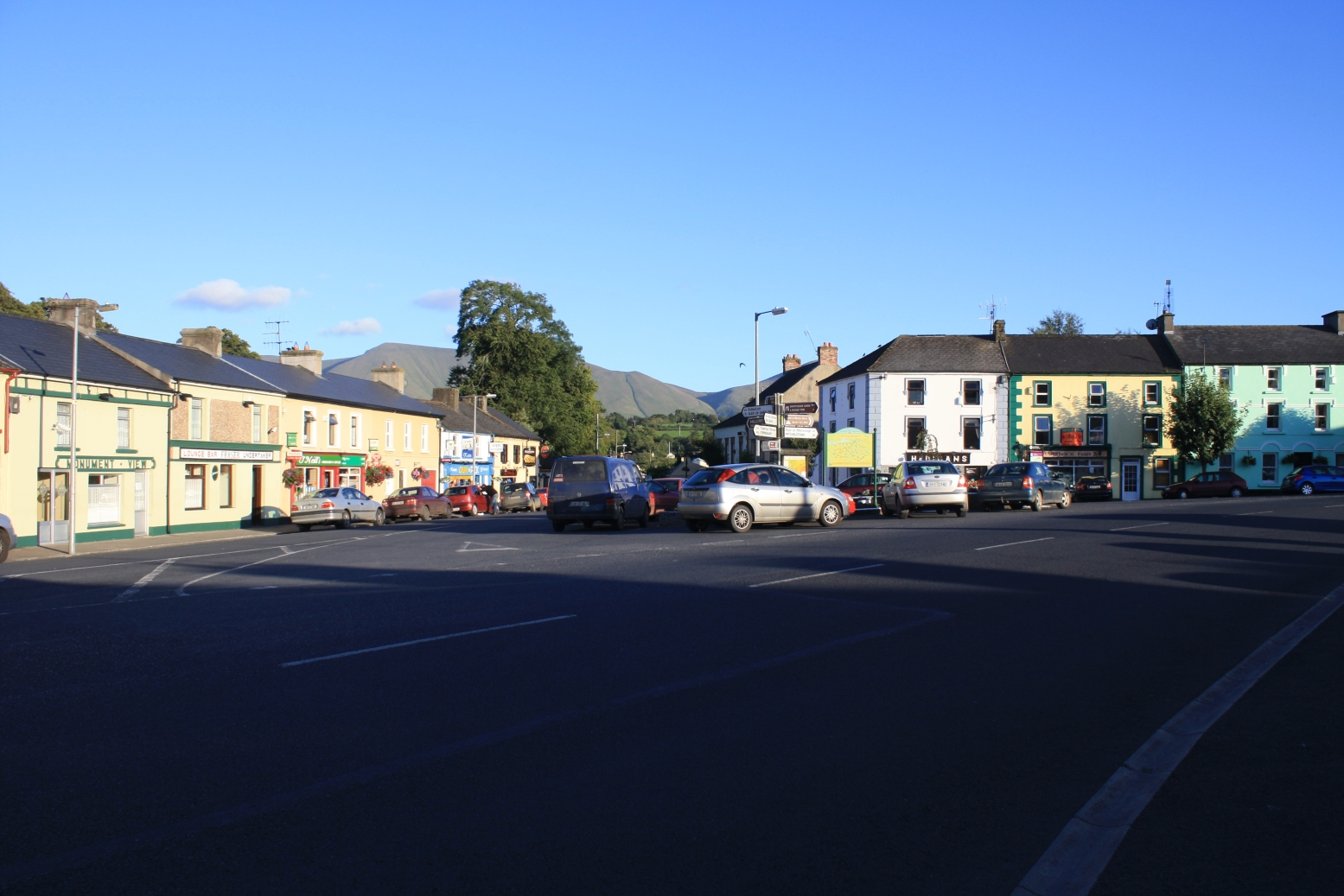 Galbally, County Limerick. Ireland August 2011